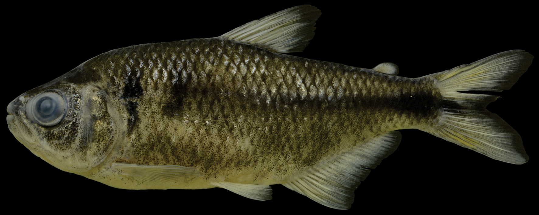 Figure 1; Astyanax taurorum sp. nov., MCP 49468, 80,7 mm SL, holotype, tributary of dos Touros River, Rio Grande do Sul, Brazil.